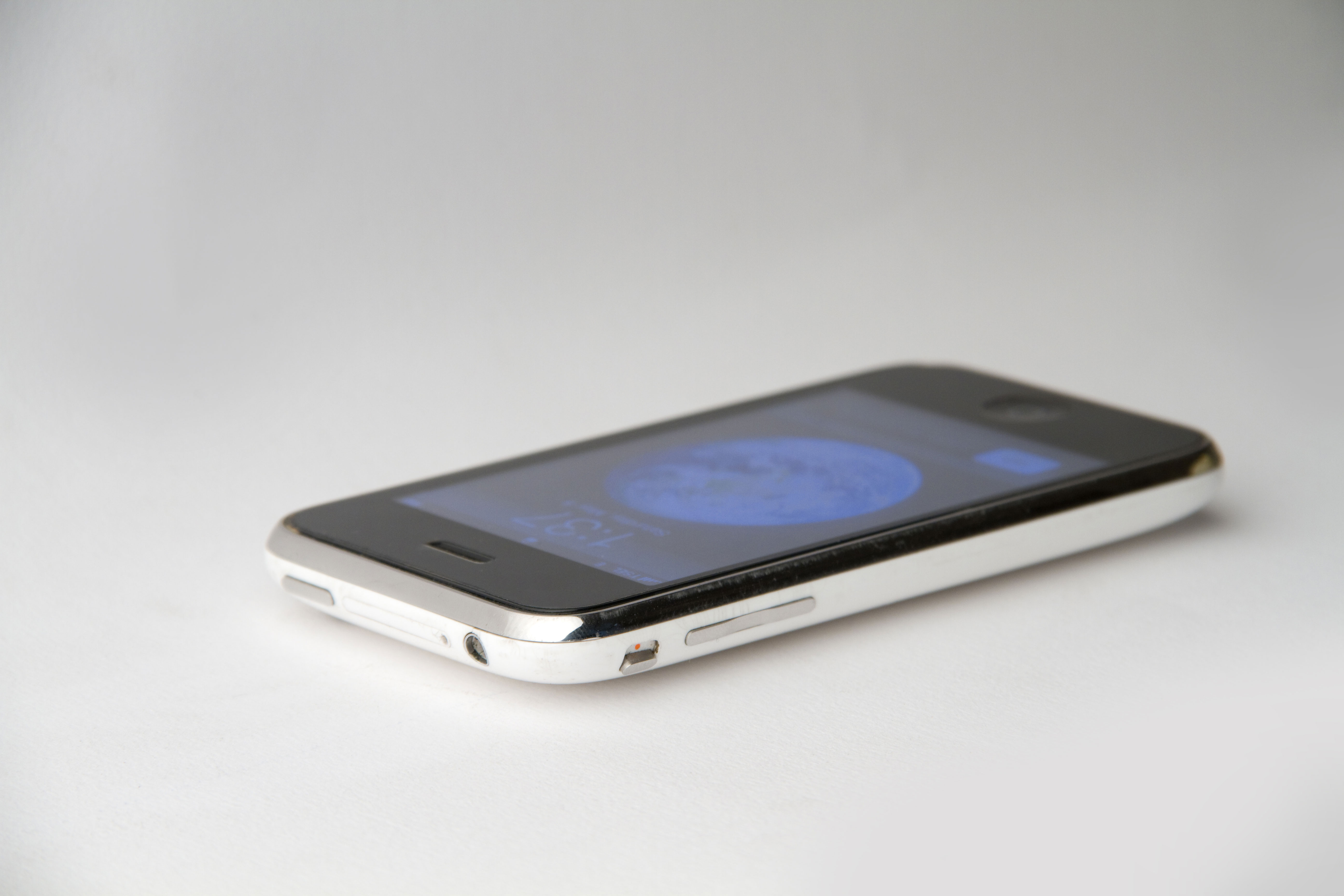 Top and left side of iPhone 3G white showing the standby button, sim tray, headphone plug, silent switch and volume buttons.jpg